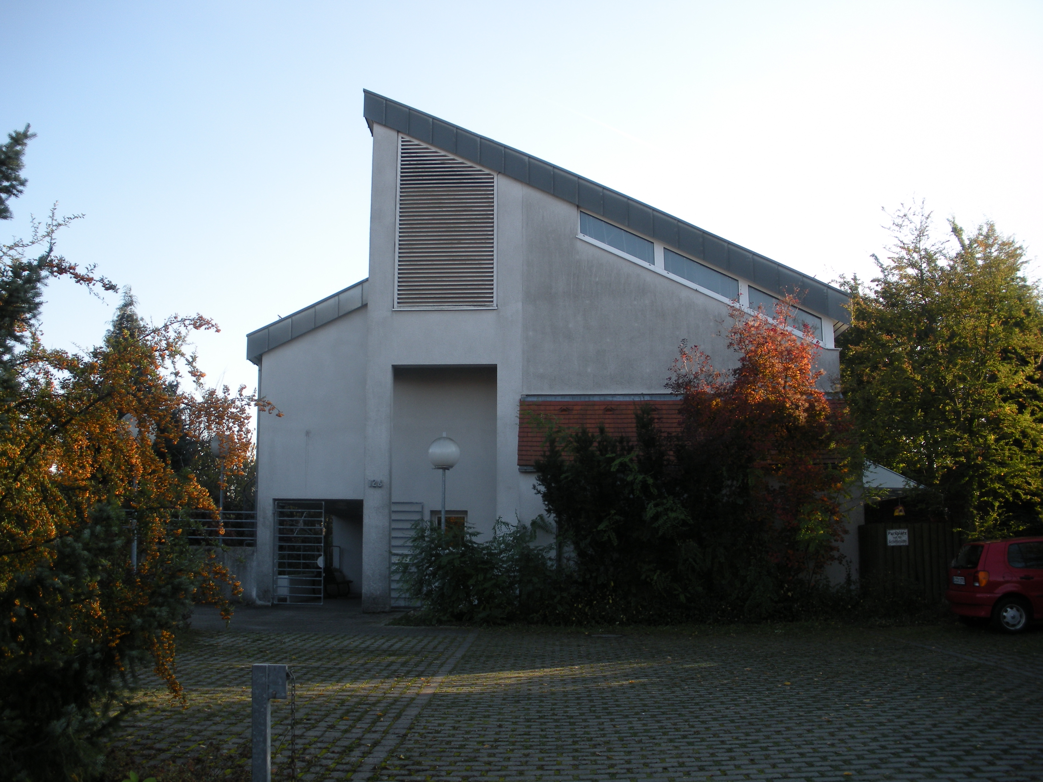 Protestant Church in Stuttgart-Hoffeld